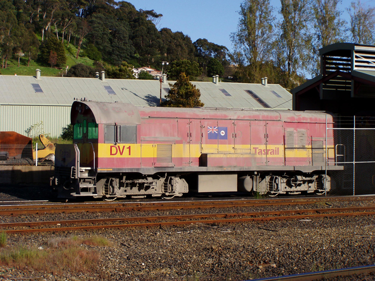 DV1, converted from stripped shell of Y7